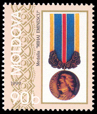 Stamp of Moldova